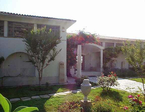 Outside view, image from the Archaeological Museum, Veroia, Central Macedonia, Greece